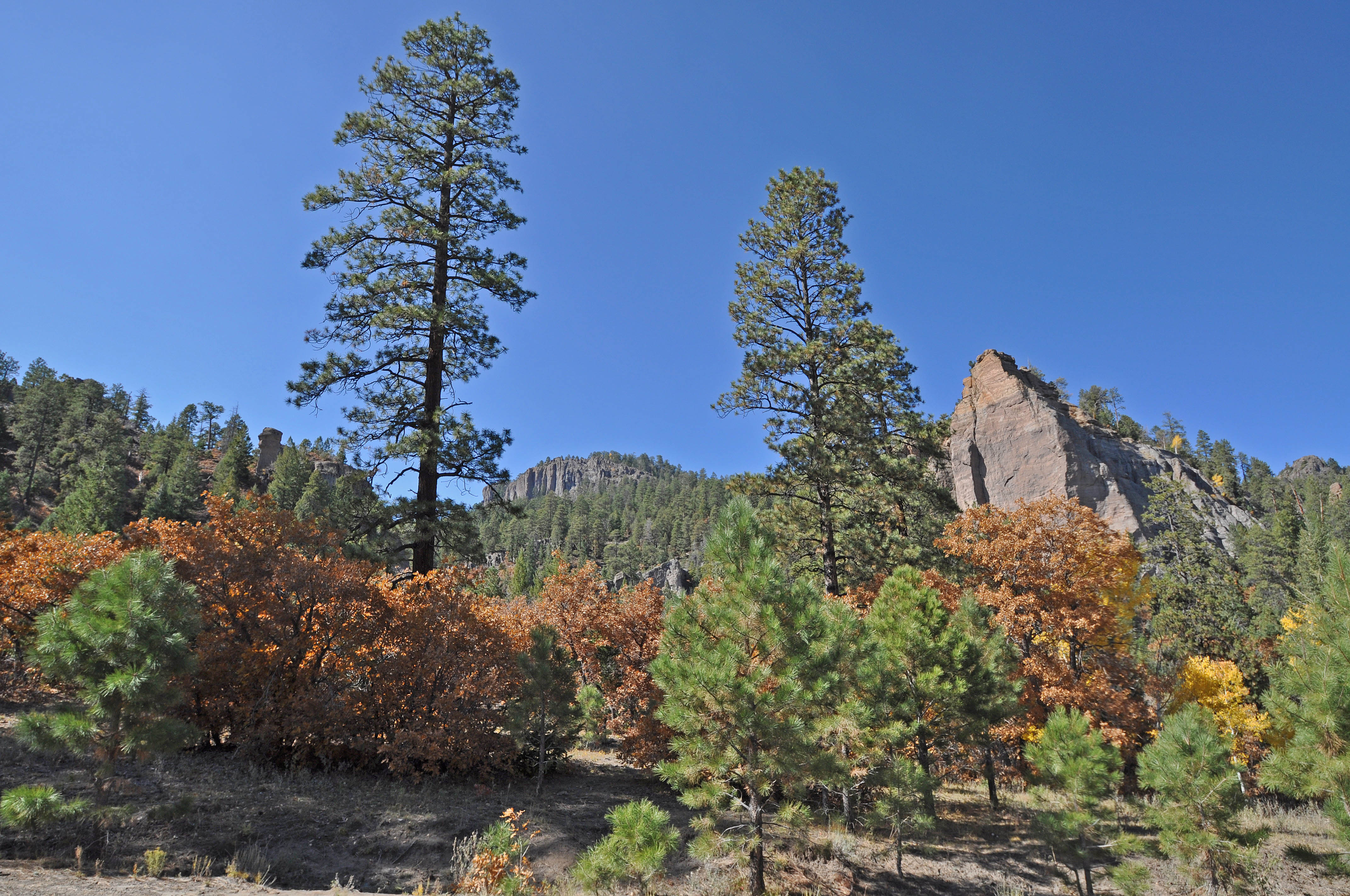 A view of the Chuska Mountains on the Navajo Indian Reservation near Narbona Pass north of Window Rock, Ariz. 19 October 2011 Credit: Kaibab National Forest, Southwestern Region, USDA Forest Service.